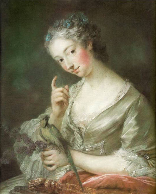 Portrait of Jeanne Agnès Berthelot de Pléneuf, marquise de Prie